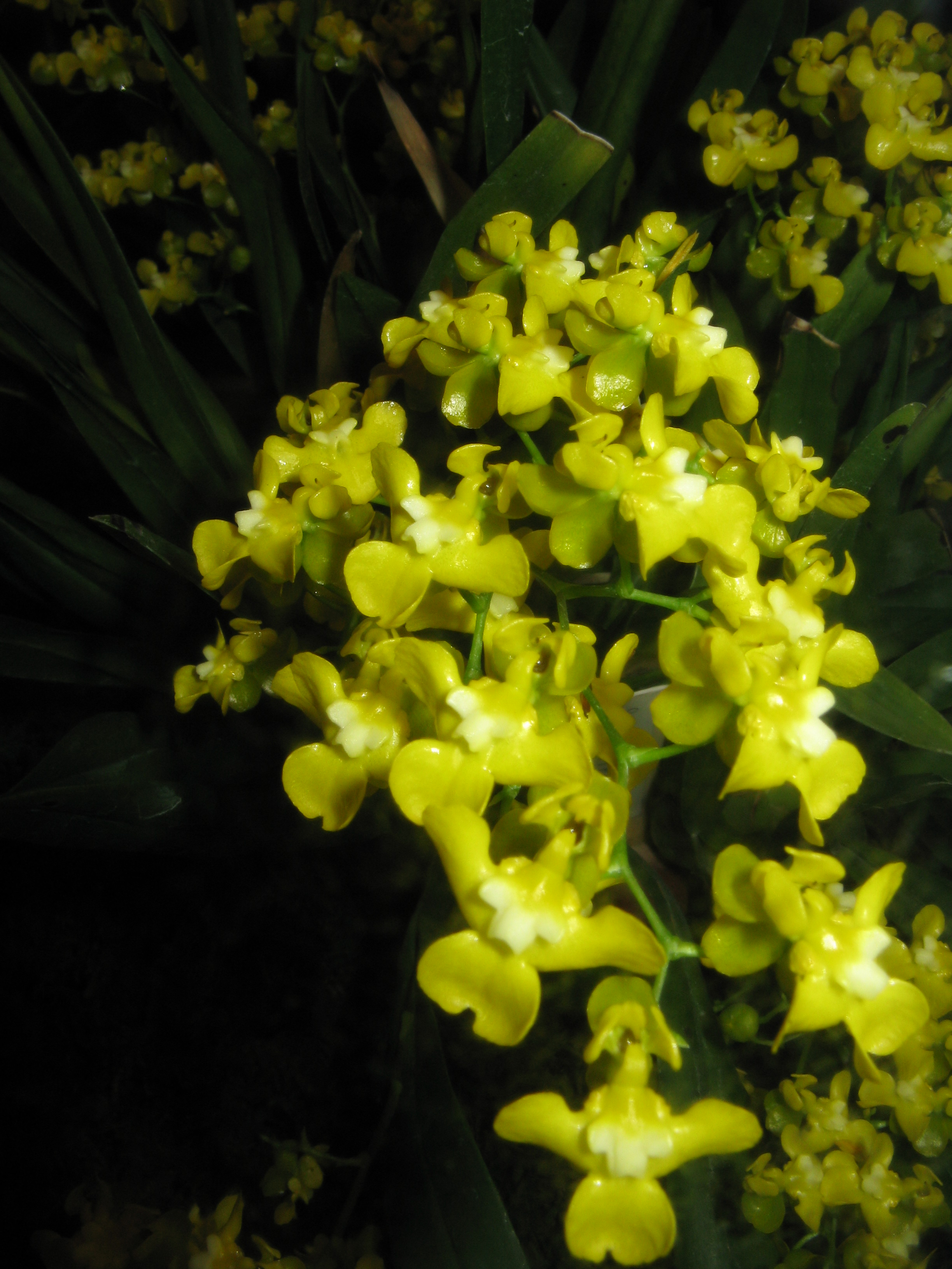 Scientific name Oncidium cheirophorum Place:Osaka Prefectural Flower Garden,Osaka,Japan